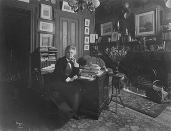 Mrs. Jeanette Thurber in her office